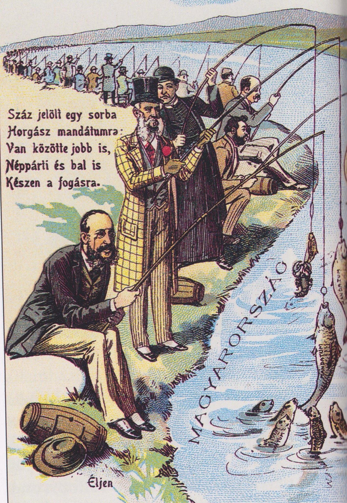 Postcard depicting the 1901 parliamenmtary election, where Prime Minister Kálmán Széll and his Liberal Party had won a landslide victory. ("Magyarország" - Hungary, "mandátum" on fishes - mandate)